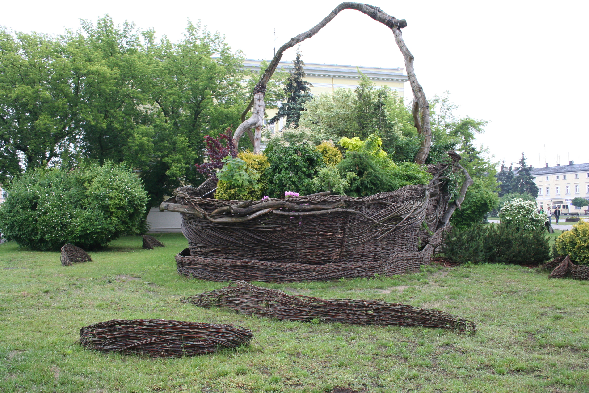 The worlds biggest wicker basket